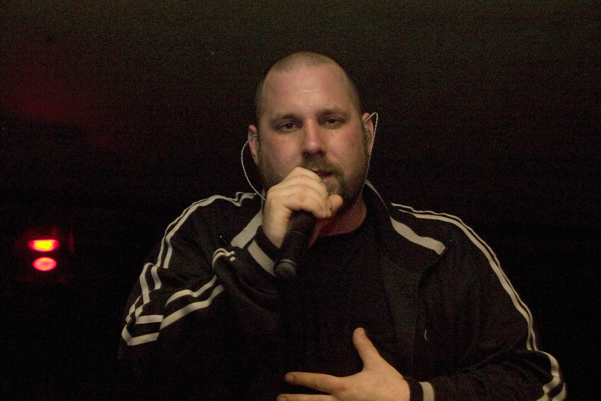 Sage Francis - May 30, 2007 Rest & Relaxation Hotel, WDC